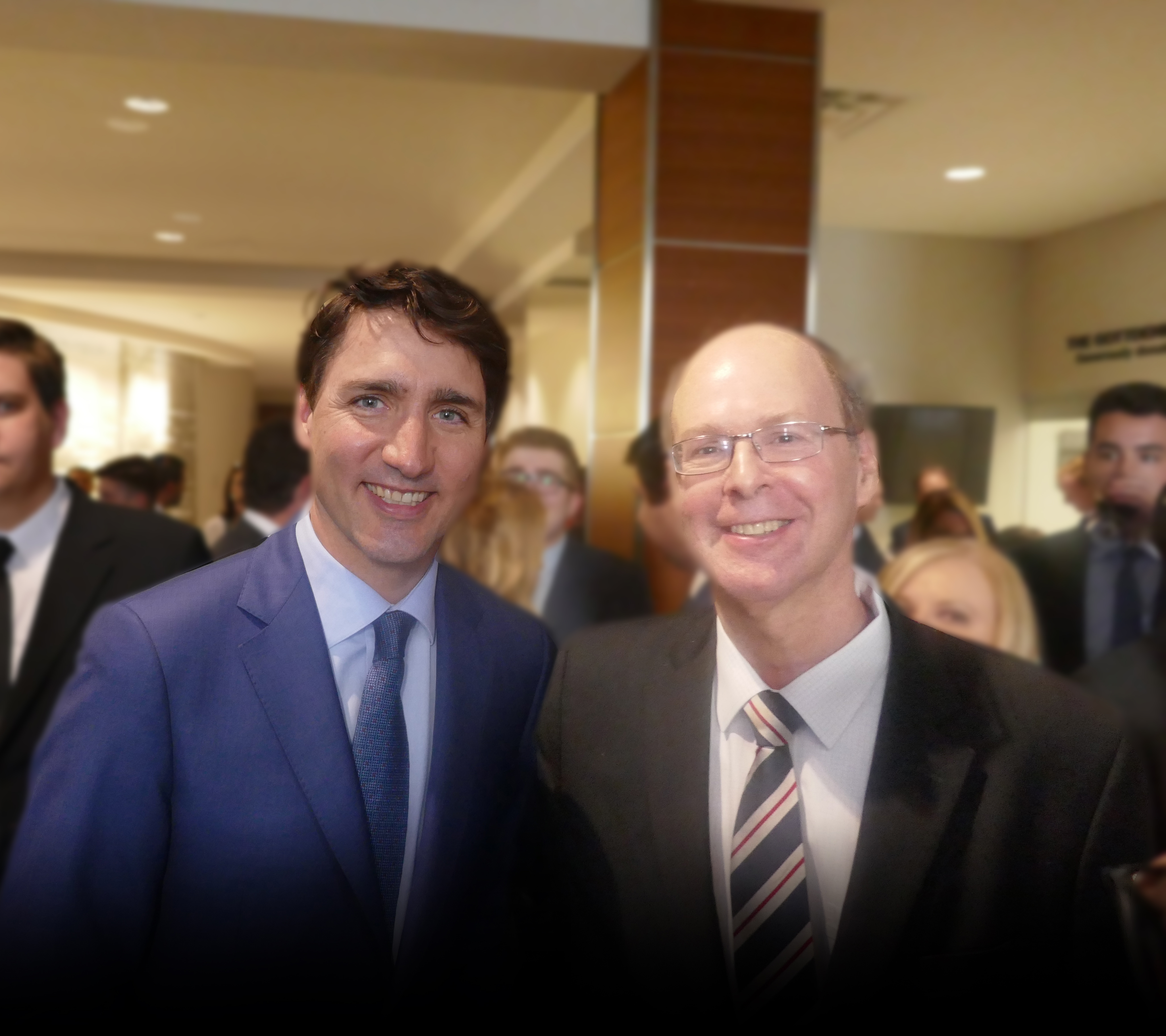 May 8, 2018. Eli Rubenstein was given a Lifetime Achievement Award by Jewish Federations of Canada-UIA at a March of the Living Event called “This is Our Legacy”, held in Toronto, Canada. 2018 is Eli Rubenstein's 30-year milestone working with March of the Living.